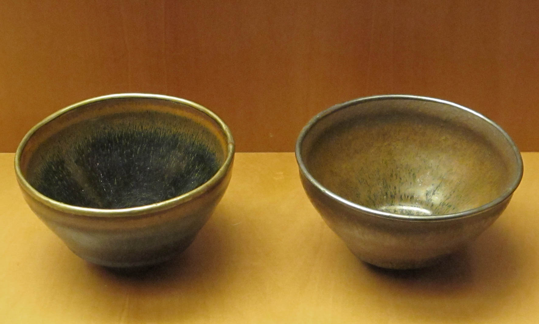 Two tea bowls, stoneware tenmoku, "hares fur". Song Dynasty. Musée des Beaux-Arts de Lyon. inv. E 554-1 (left), E 554-288c (right)